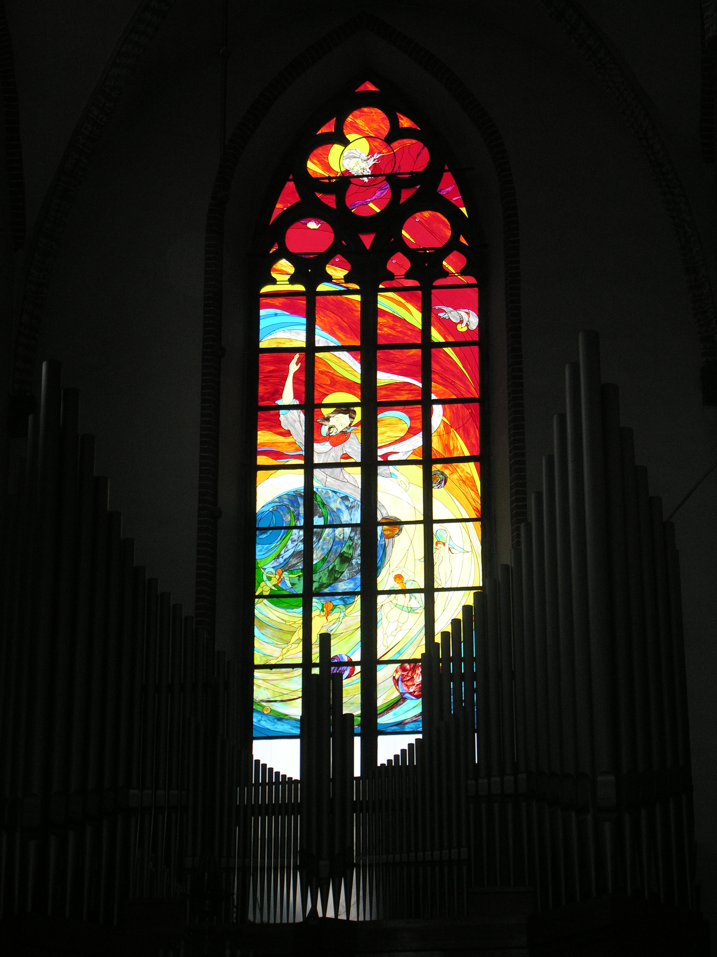 A stained glass in the Corpus Christi Church in Wrocław